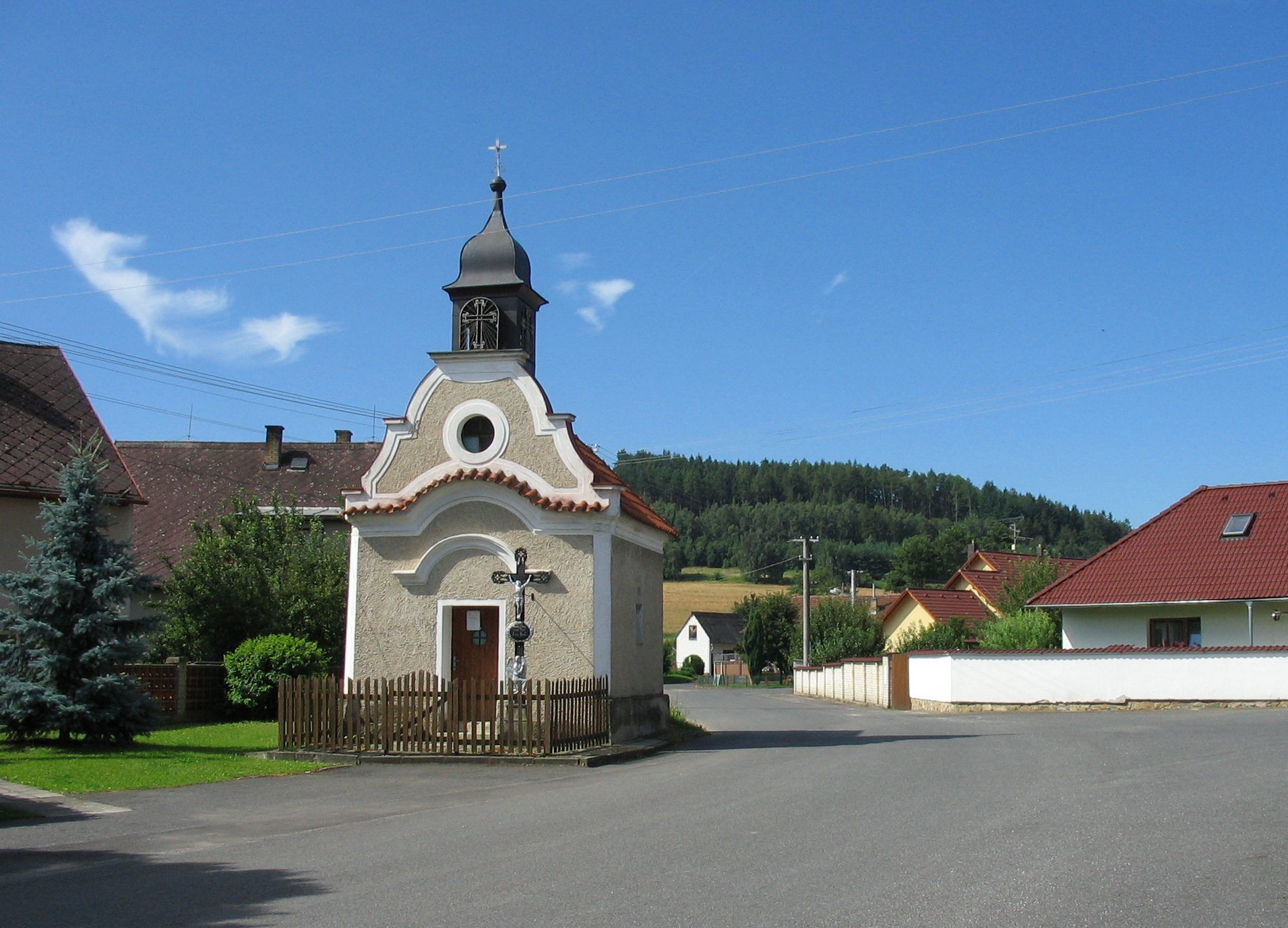 Village square with chapel in Drachkov, Strakonice District, Czech Republic